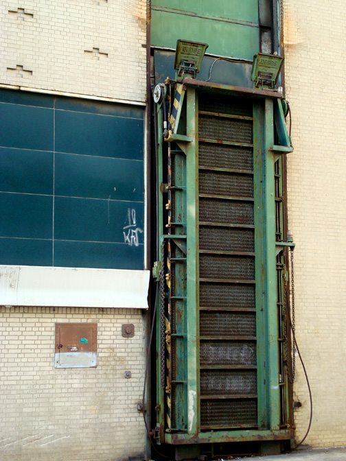 Lift used to bring cars and other displays into the ballroom of the Statler Hilton Hotel in Dallas